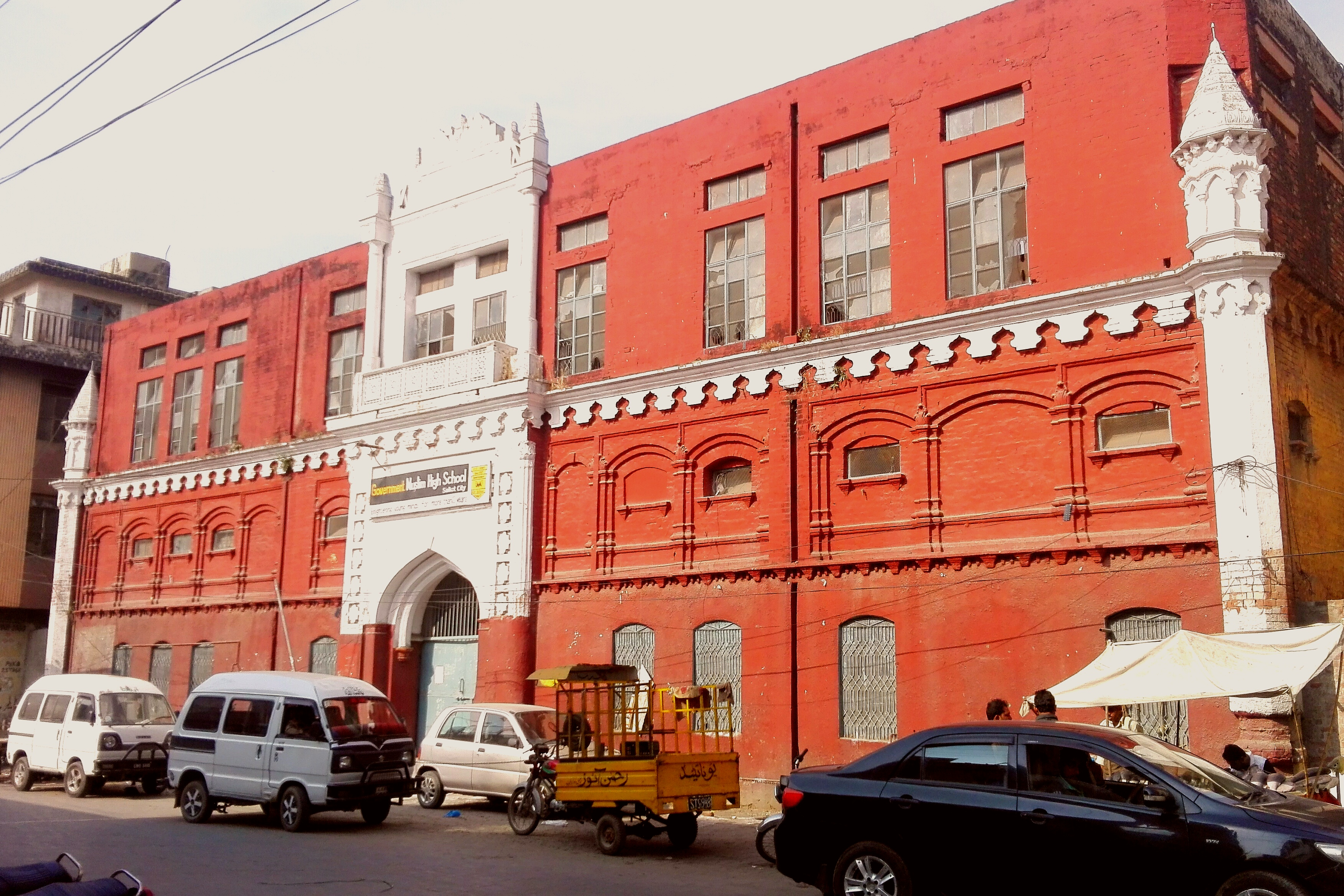 Sialkot Muslim High School